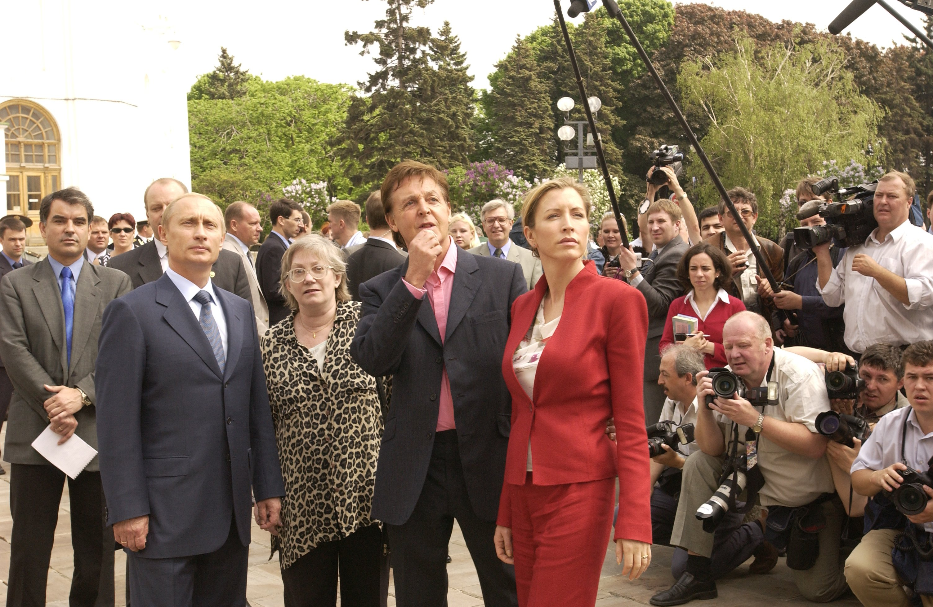 MOSCOW, KREMLIN. Russian President Vladimir Putin, singer and composer Paul McCartney and his wife Heather Mills take a walk in the Kremlin.